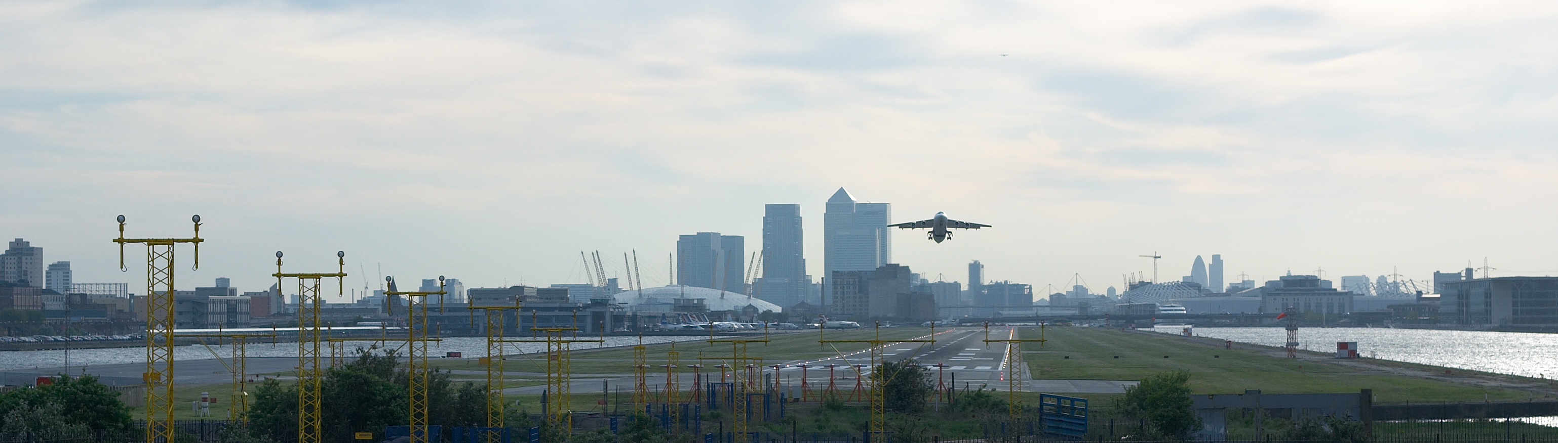 Avro RJ70 taking off from London City Airport.